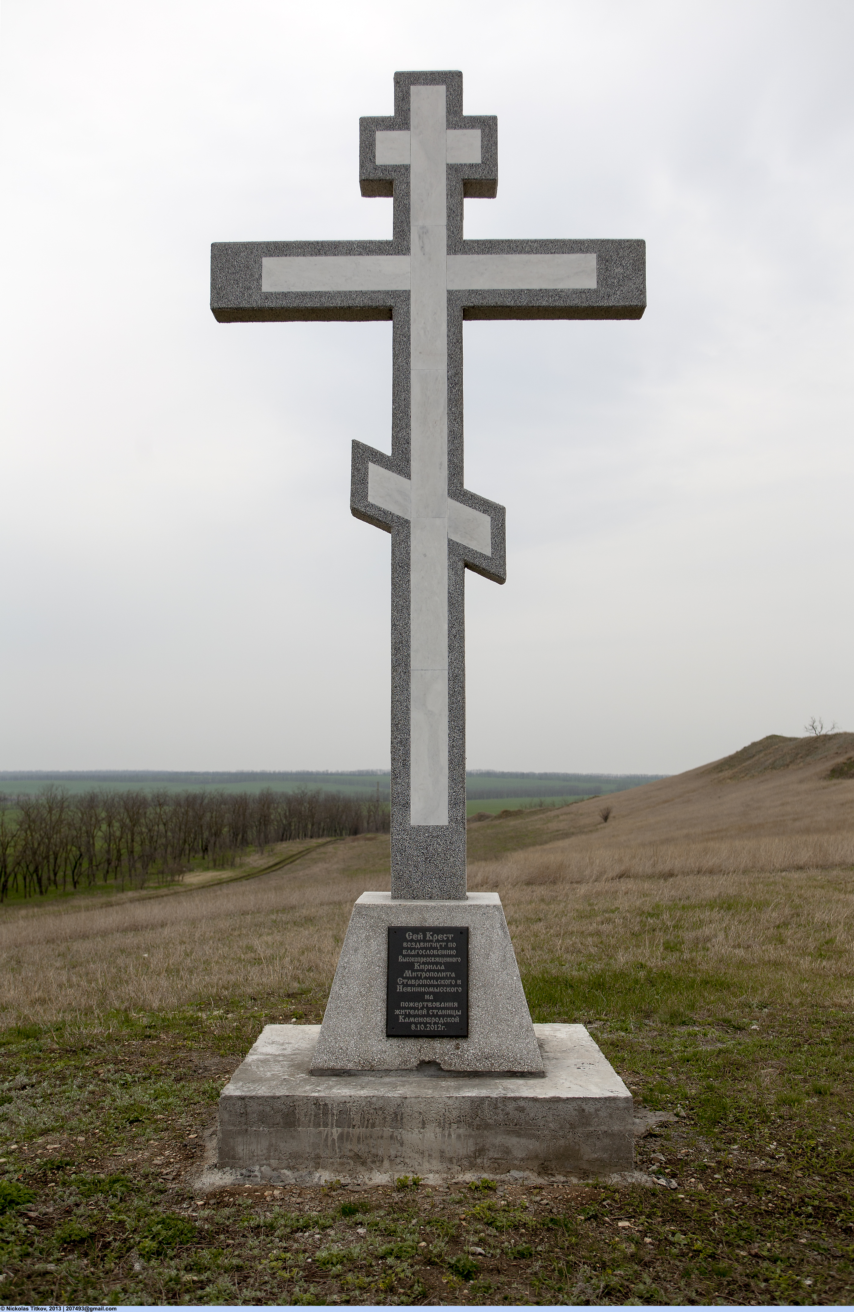 Памятный каменный крест станицы Каменнобродская